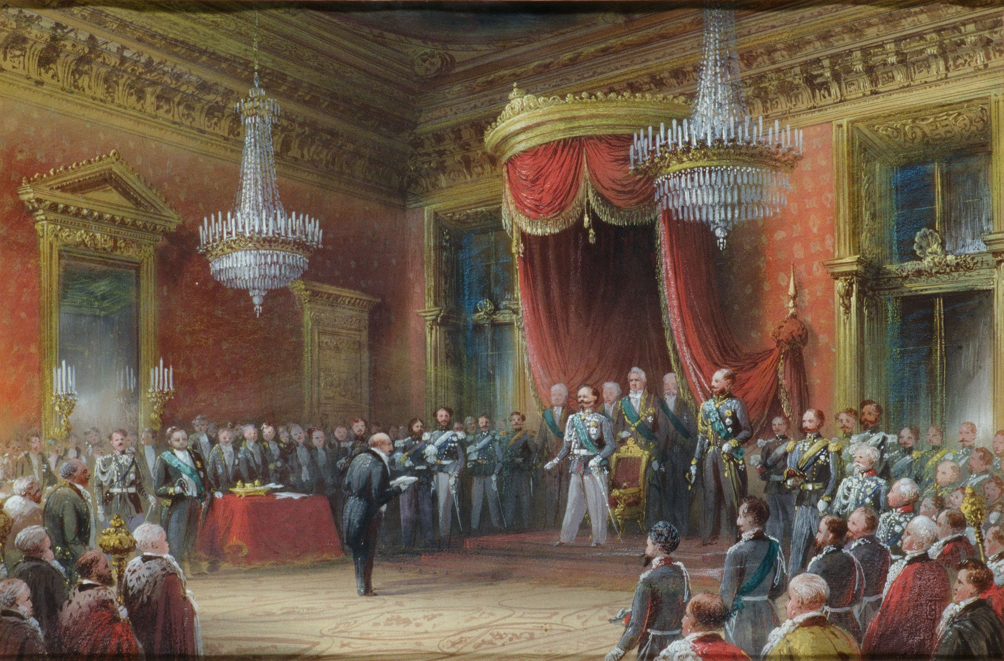 Illustration by Carlo Bossoli (1815-1884) depicting Vittorio Emanuele II (1820-1878), King of Sardinia (1849-1861) and Italy (1861-1878) while welcoming the Cavalier Farini presenting him the annexion act of Emilia Region